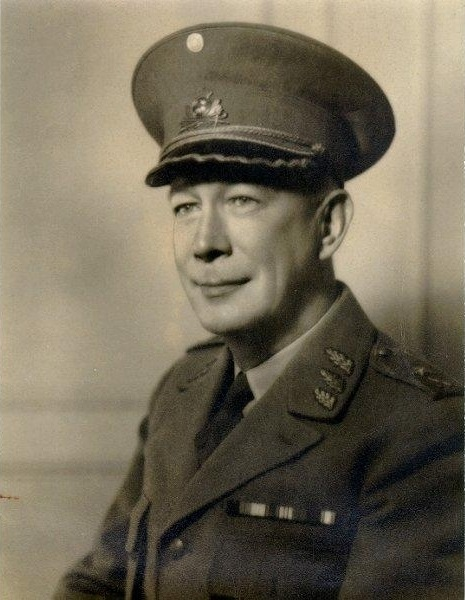 Surgeon-General of the Swedish Armed Forces David Lindsjö. Photo: 60th birthday in 1947.